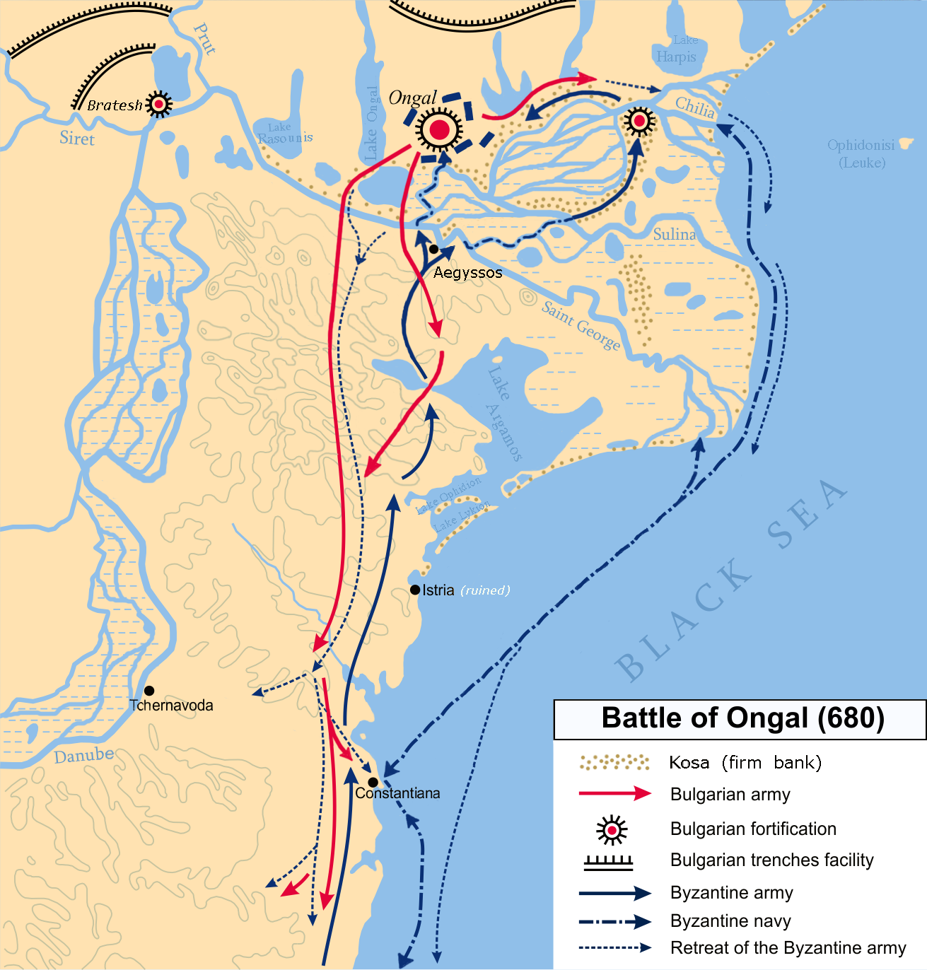 See discussion fine